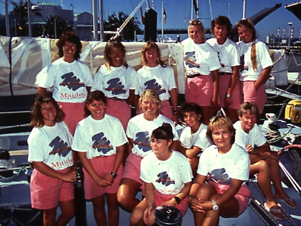 The all female crew, skippered by Tracy Edwards, in 1990.